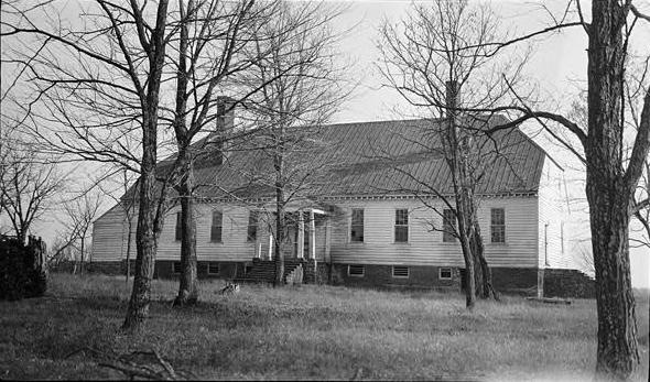 Scotchtown (Hanover County, Virginia) (cropped)